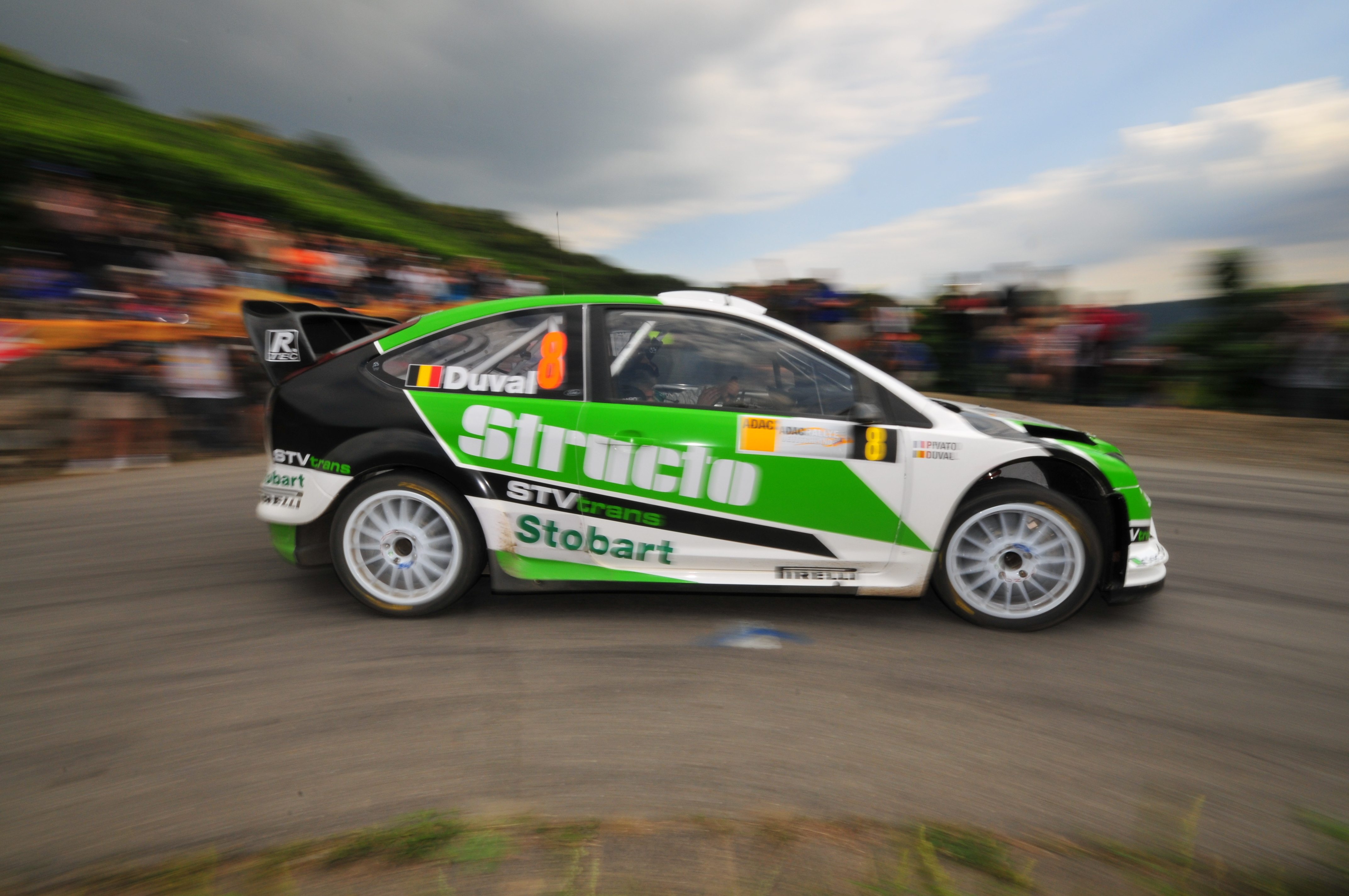 François Duval driving his Ford Focus RS WRC 07 at the 2008 Rallye Deutschland.